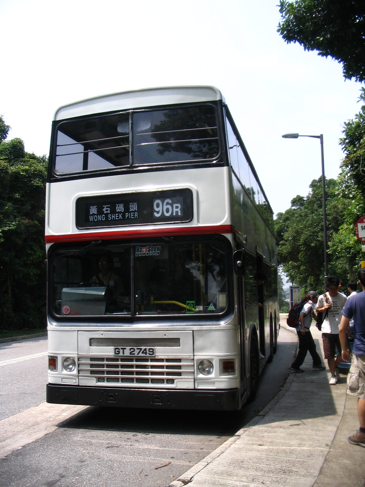 Photo of KMB Route 96R. Pak Tam Au Stop along Pak Tam Road